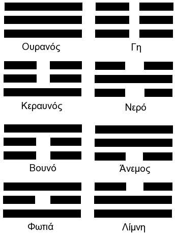 I Ching, Trigram